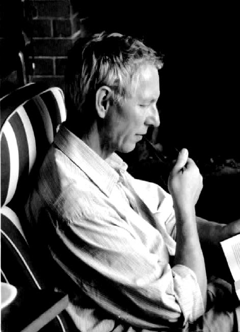 Fritz Stolz